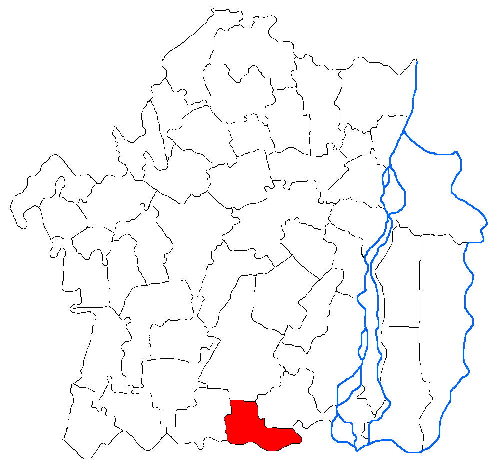 Limits of the commune of Victoria in Brăila County, Romania